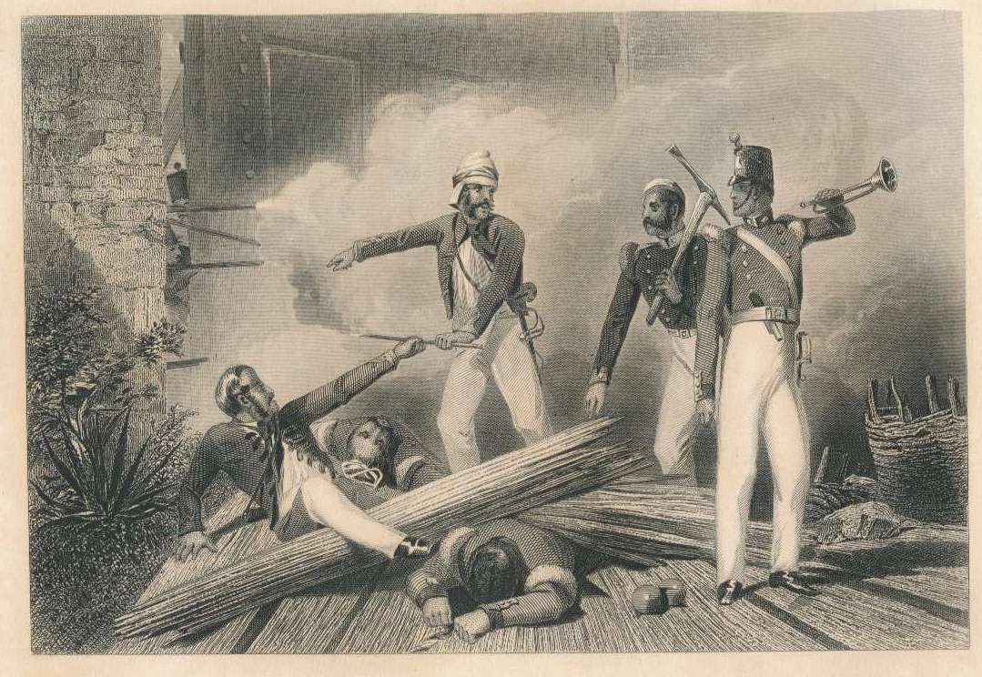 "Blowing up of the Cashmere Gate at Delhi, 14 Sept. 1857," a steel engraving by Darley and Ridgway Source: ebay, Aug. 2005 From the original description: Meanwhile, the third column effected an entrance by the Cashmere gate. At the head marched an explosion party, composed of Lieutenants Salkeld and Home Sergeants Smith and Carmichael, Corporal Burgess, and Bugler Hawthorne, with fourteen Native sappers and miners of the old Bengal army and ten Punjabis. Covered by the fire of the Rifles, the advanced party safely reached the outer barrier gate which they found open and unguarded. Home, Smith, Carmichael, Havildar Madhoo, and another Native sapper, passed over the partially destroyed drawbridge, and succeeded in placing powder-bags at the foot of the double gate. The enemy, on recovering their first astonishment at the audacity of the procedure, poured forth volley after volley through the open wicket. Carmichael was killed, and Madhoo wounded; but the powder was laid, and the four survivors sprang into the ditch while the firing party, under Lieutenant Salkeld, proceeded to perform its perilous duty Salkeld was mortally wounded while endeavoring to fire the charge, and fell handing the slow-match to Burgess, who succeeded in setting the train on fire, but was shot dead immediately afterwards. [The scene depicted on the engraving]. Havildar Tiluk Sing was wounded; and another Hindoo, whose name is given in the report as Ram Heth, was killed. Thus the most popular exploit of the day was performed by Europeans, Seiks, and Bengal sepoys, fighting, suffering, and dying side by side. Colonel Baird Smith names no less than six natives, as having shown the most determined bravery and coolness throughout the whole operations; and praises "the remarkable courage shown by the Native officers and men in assisting their wounded European comrades."